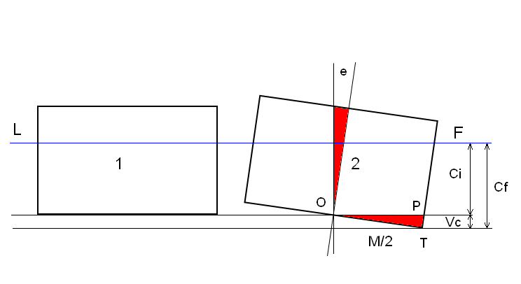 Draft variation due list